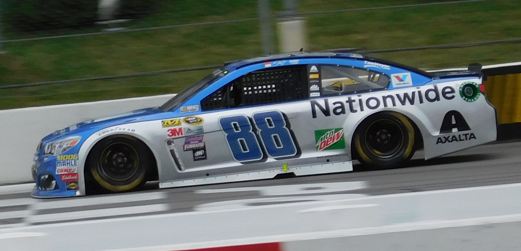 Jeff Gordon's No. 88 Nationwide Chevrolet at Pocono Raceway in 2016